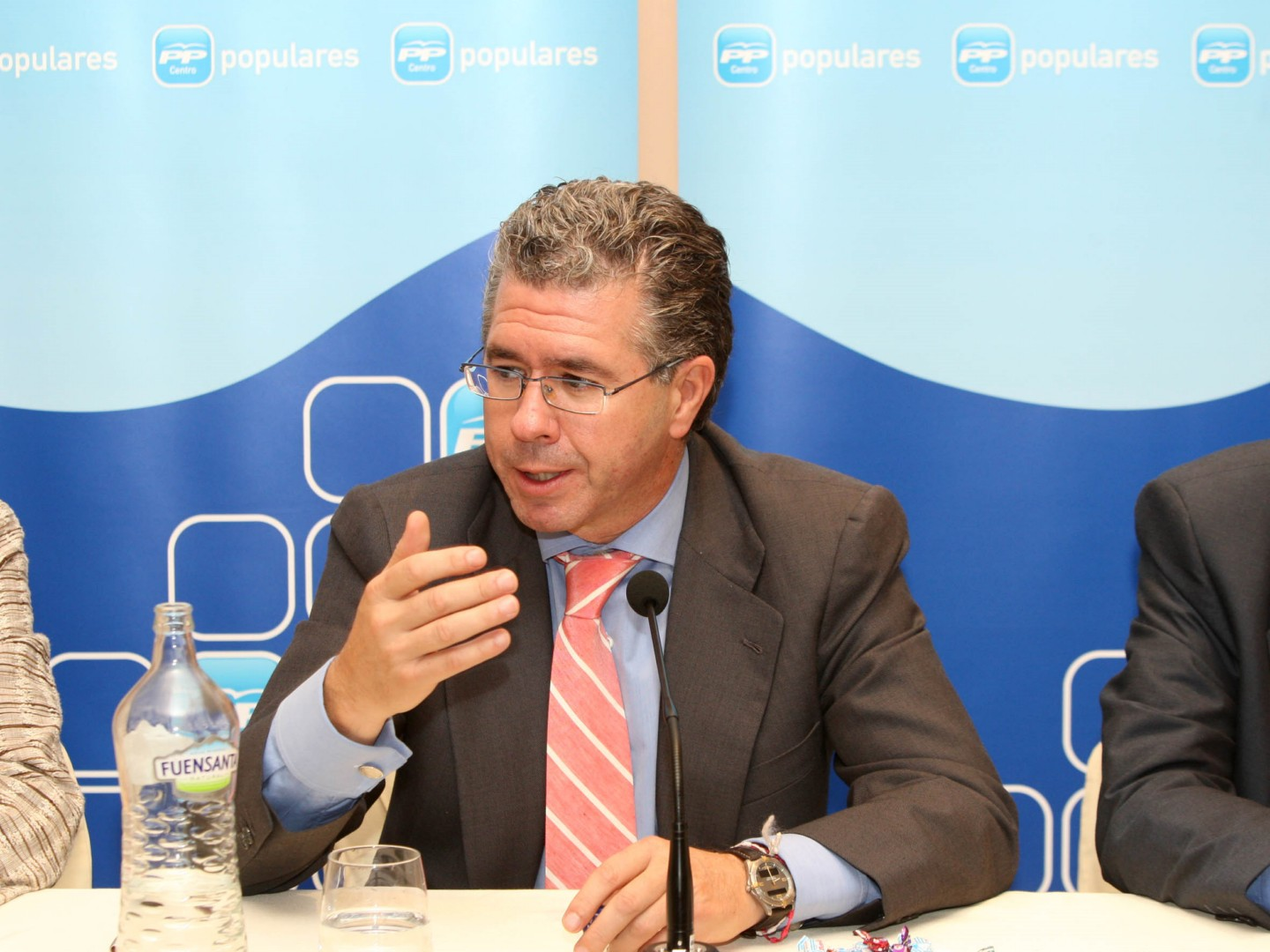 Francisco Granados, Spanish politician.